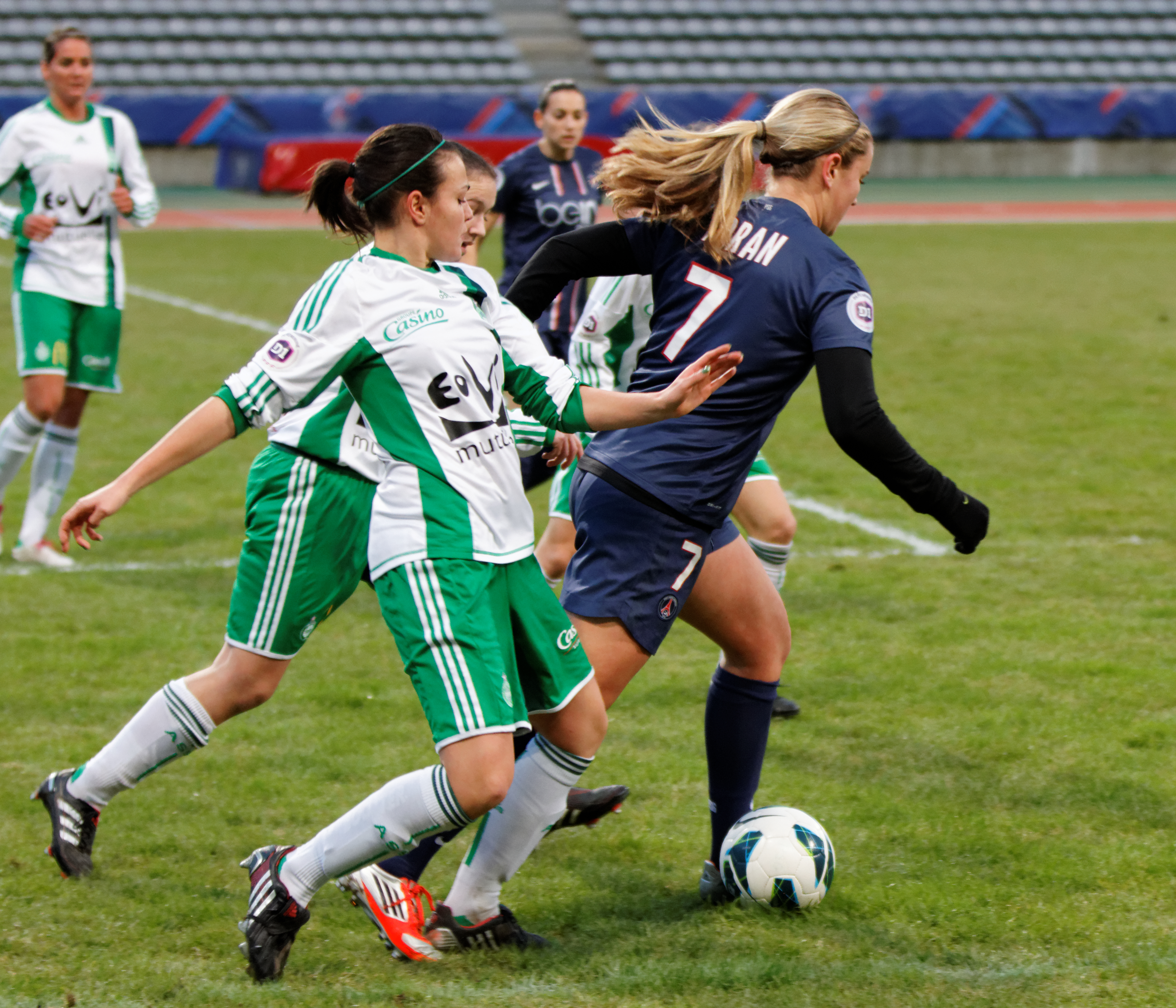 PSG-AS Saint-Étienne, december 16th, 2012. Lindsey Horan (PSG) and Ophélie Brevet (ASSE).